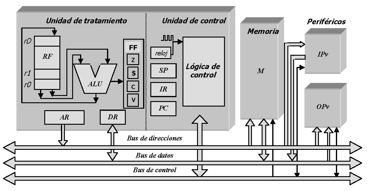 Esquema de la estructura de CODE2.